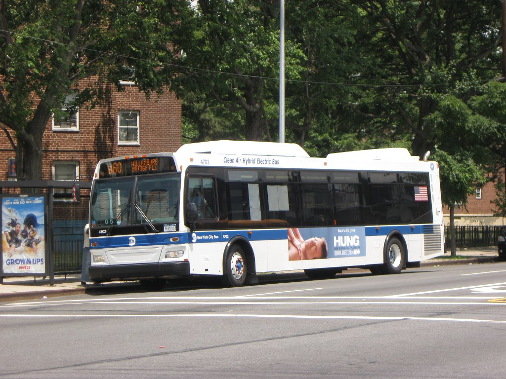 MTA New York City Bus @4702 picks up customers in Canarsie, Brooklyn on the B60 route.